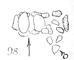 Outline of the dolmen Nettgau, Saxony-Anhalt